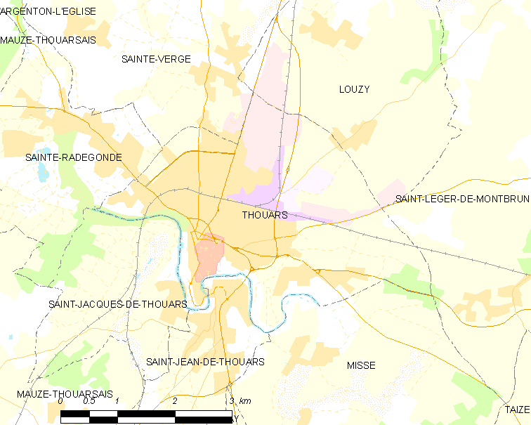 Map of French municipality Thouars